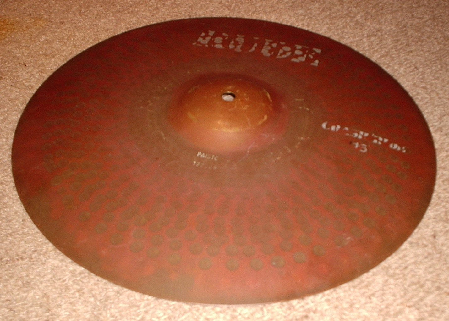 Paiste Rude 16" crash/ride, a B8 cymbal very deep hammered